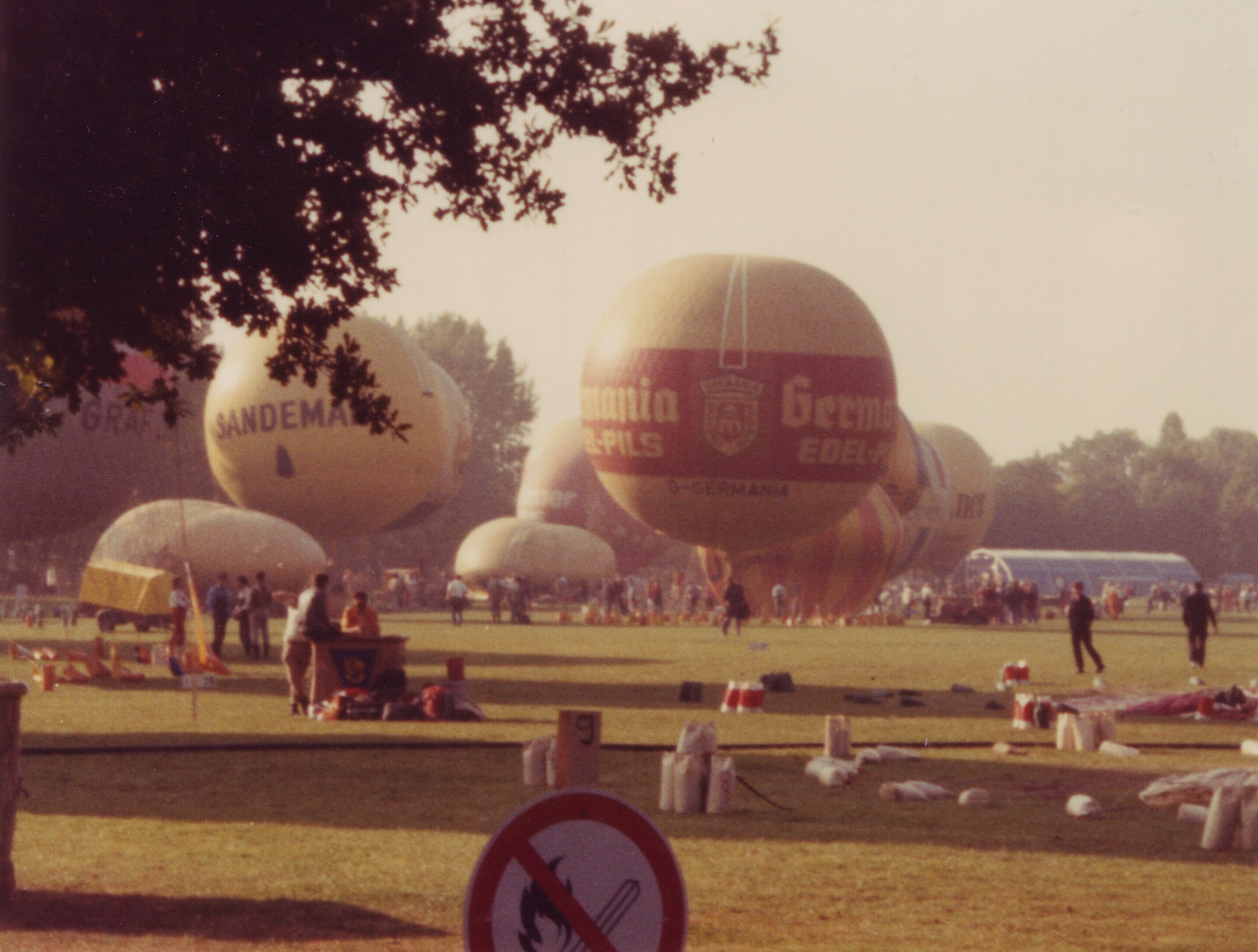 Start preparations for 32 gas ballons, filled with hydrogen in the Ostpark in Frankfurt am Main-Ostend, bicentennial anniversary of the first ballon start in Frankfurt am Main by Jean-Pierre BlanchardJean-Pierre Blanchard in September 1985